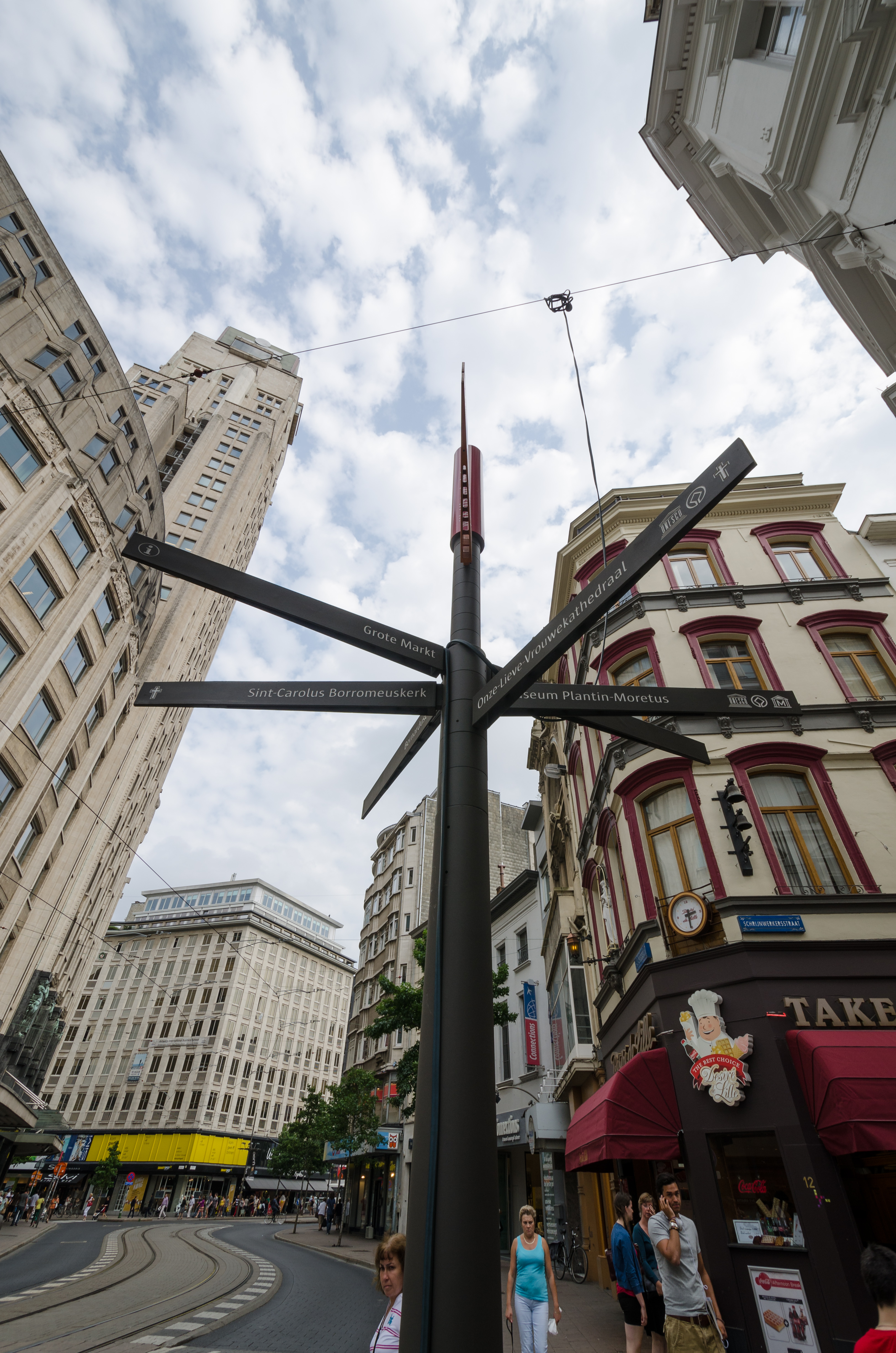 Typical street scene with view to the sky in Antwerp